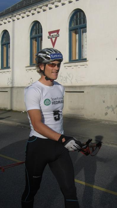 The Norwegian cross-country skier Jens Arne Svartedal under Kirkebakken Grand Prix 2007 in Hamar, Norway.